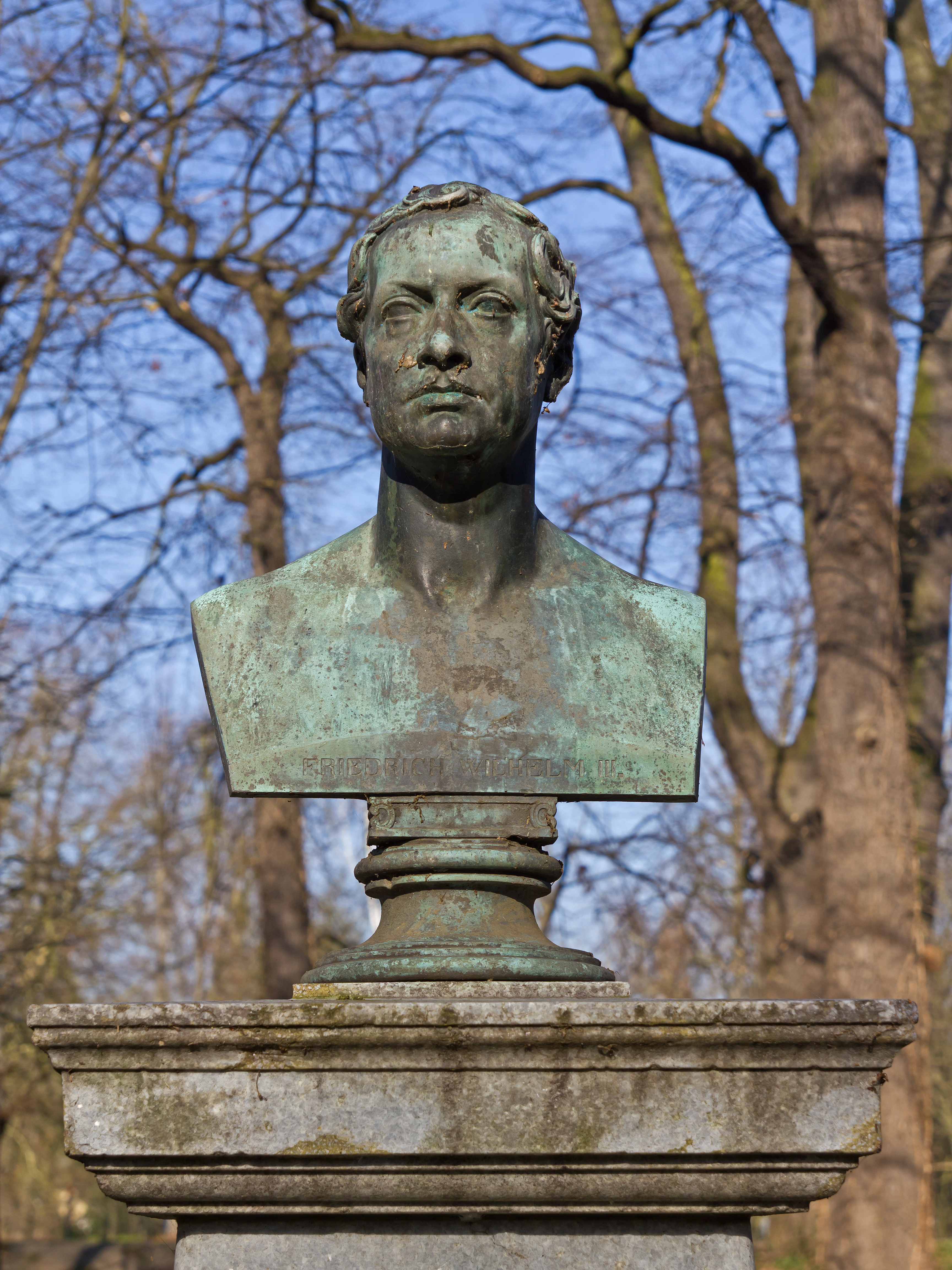 Bust of Frederick William III in the Spa Park of Bad Liebenwerda, Brandenburg, Germany